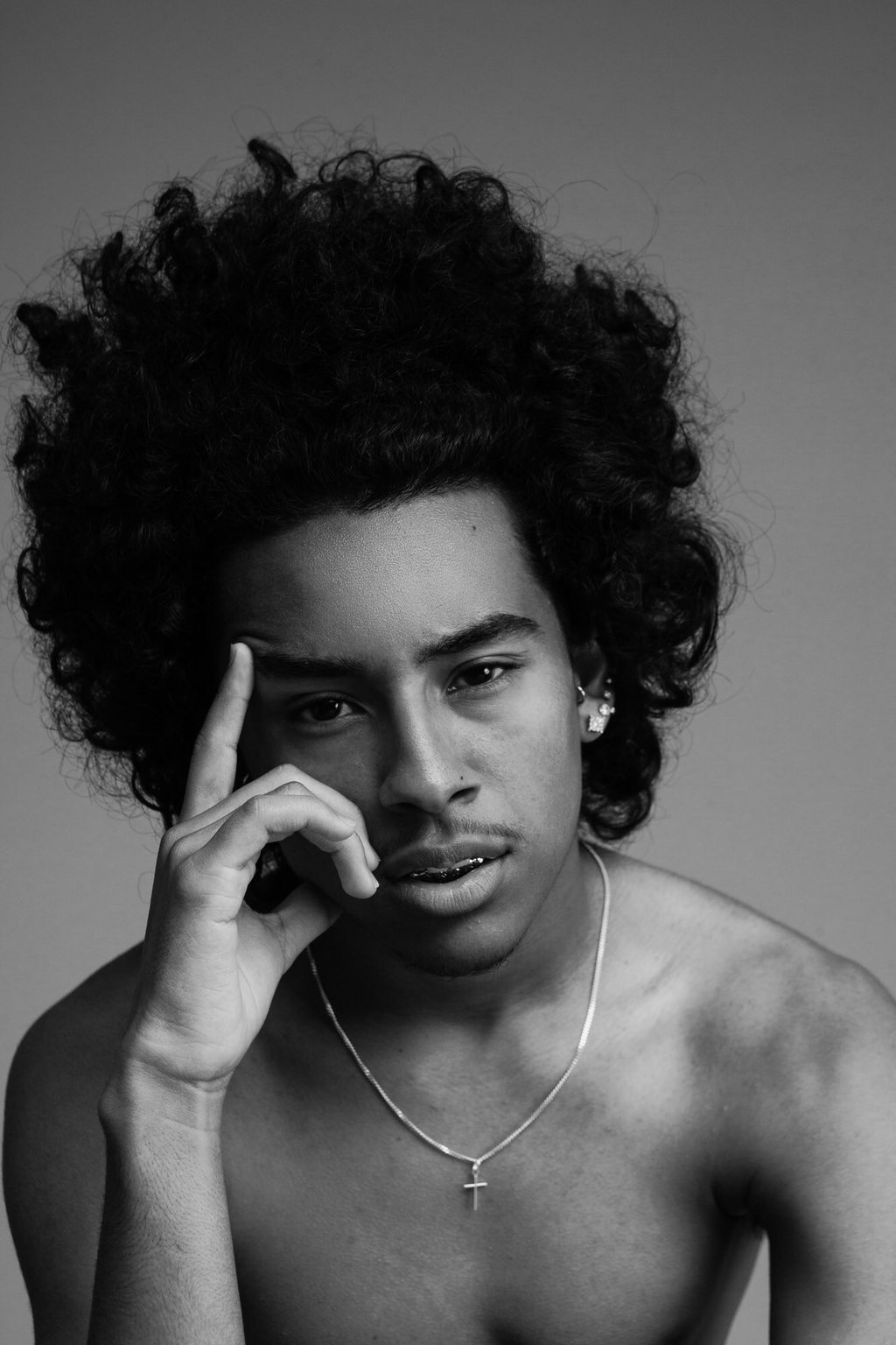 Princeton's 20th birthday photoshoot